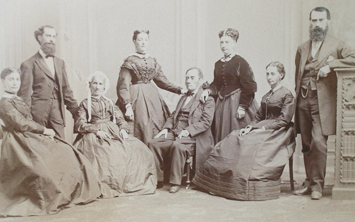 Photograph of photograph in personal collection. Photo in public domain.